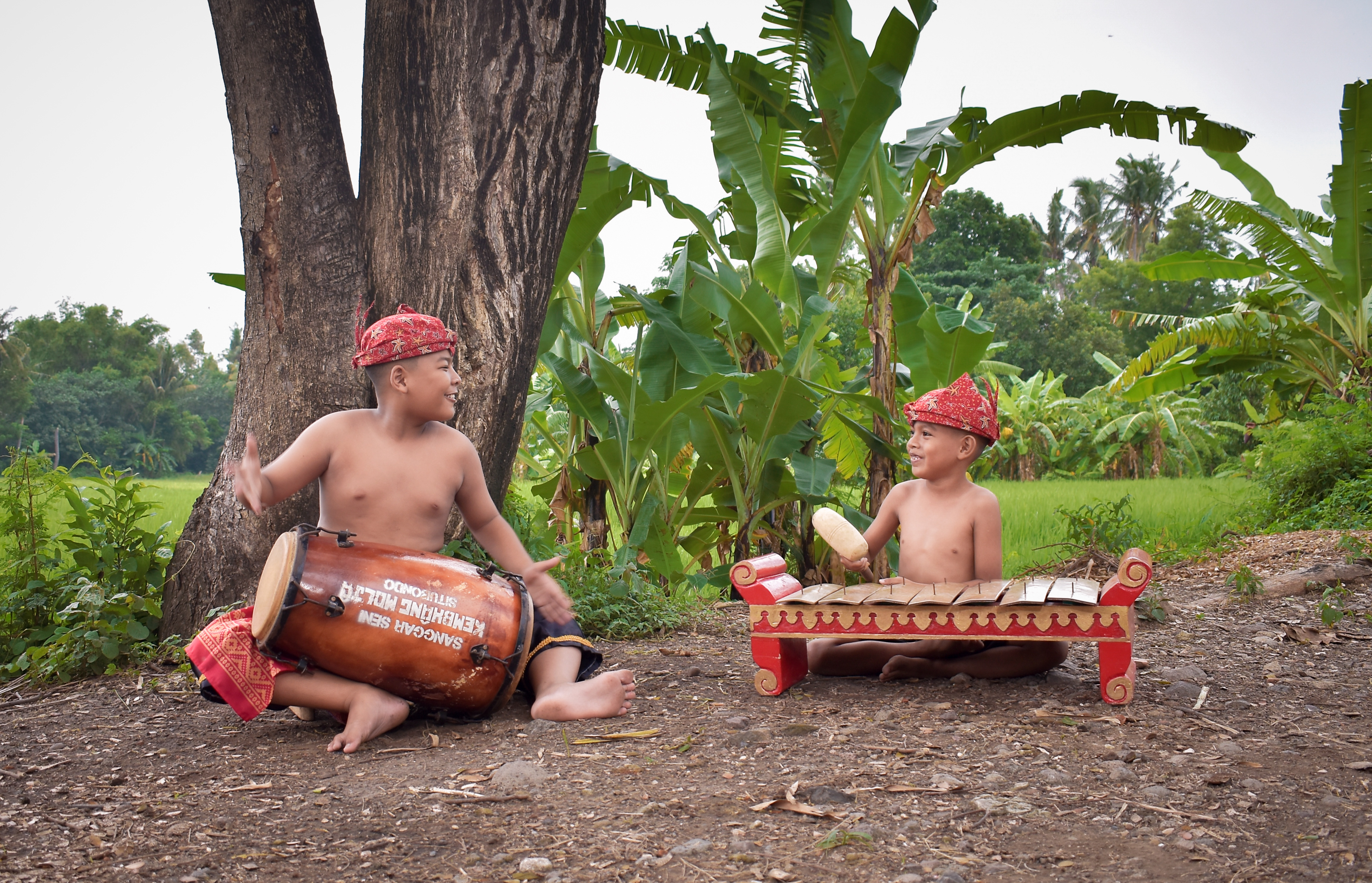 Gamelan is one of the most valuable traditional Javanese musical instruments. This instrument is often used in arts performances such as shadow puppets, ketoprak, dances, etc. But the development of the era, gamelan becomes fading enthusiasts even young people tend to prefer modern pop music. This is certainly a problem because of the lack of ownership for young people in their own arts. This is the main problem, which is how to revive art in the middle of the millennial era for young people.